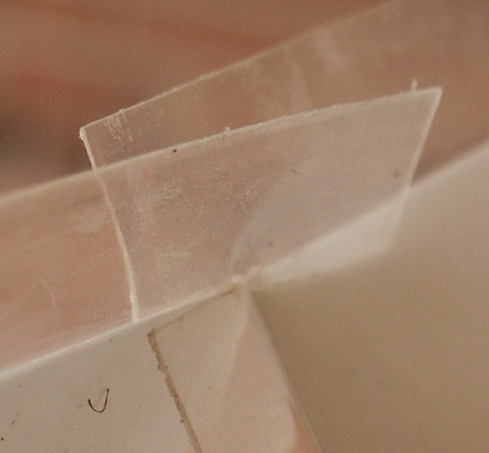 Detail of "Tracks to Telluride" tab. This photograph of this game board tab was taken and reduced by the image uploader.